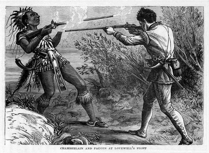 Chamberlaine and Paugus At Lovewells Fight Engraving from John Gilmary Shea A Child's History of the United States Hess and McDavitt 1872.jpg